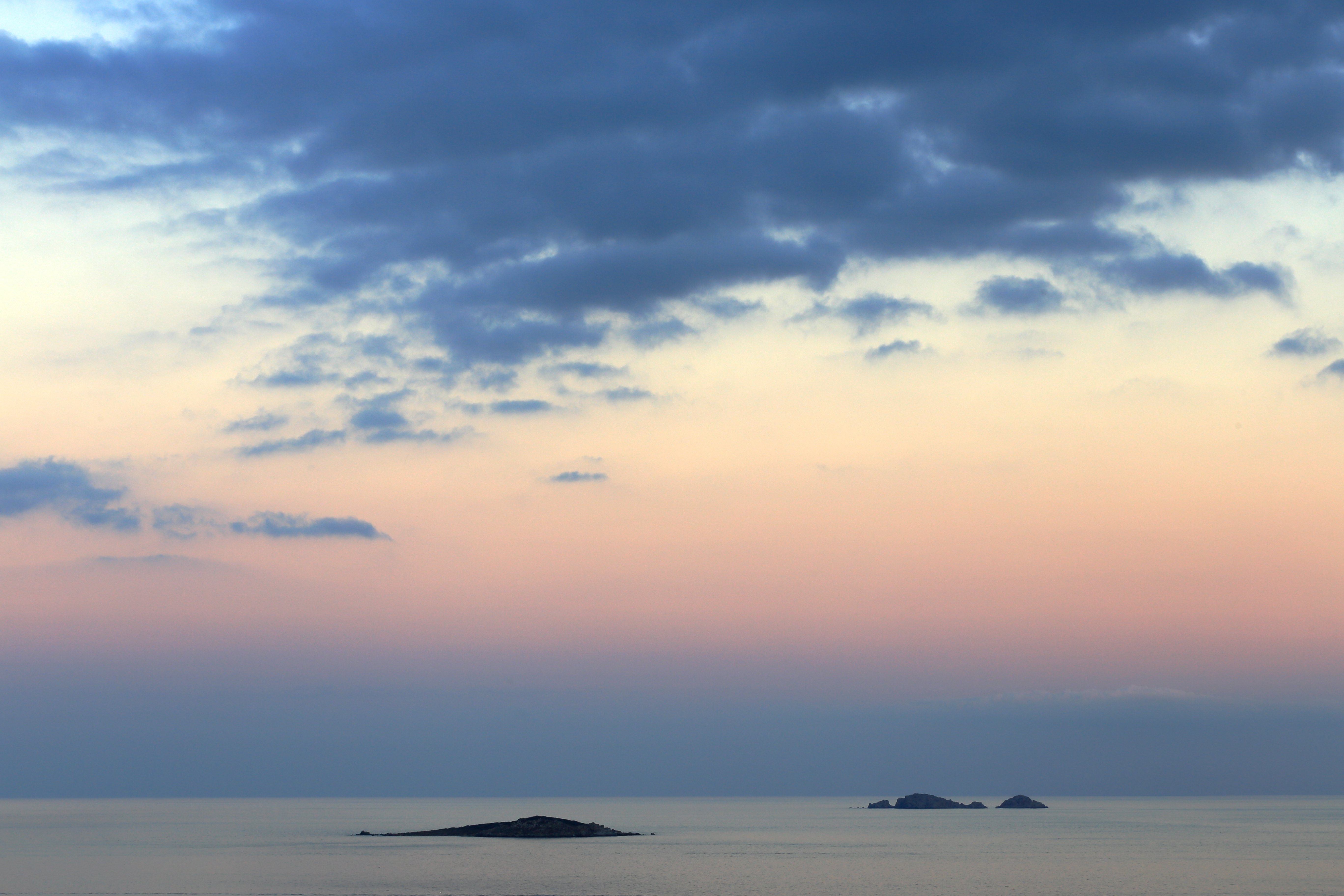 A coastal view at sunset of the Cerbicale islands in Tyrrhenian Sea, South of Corsica island, France